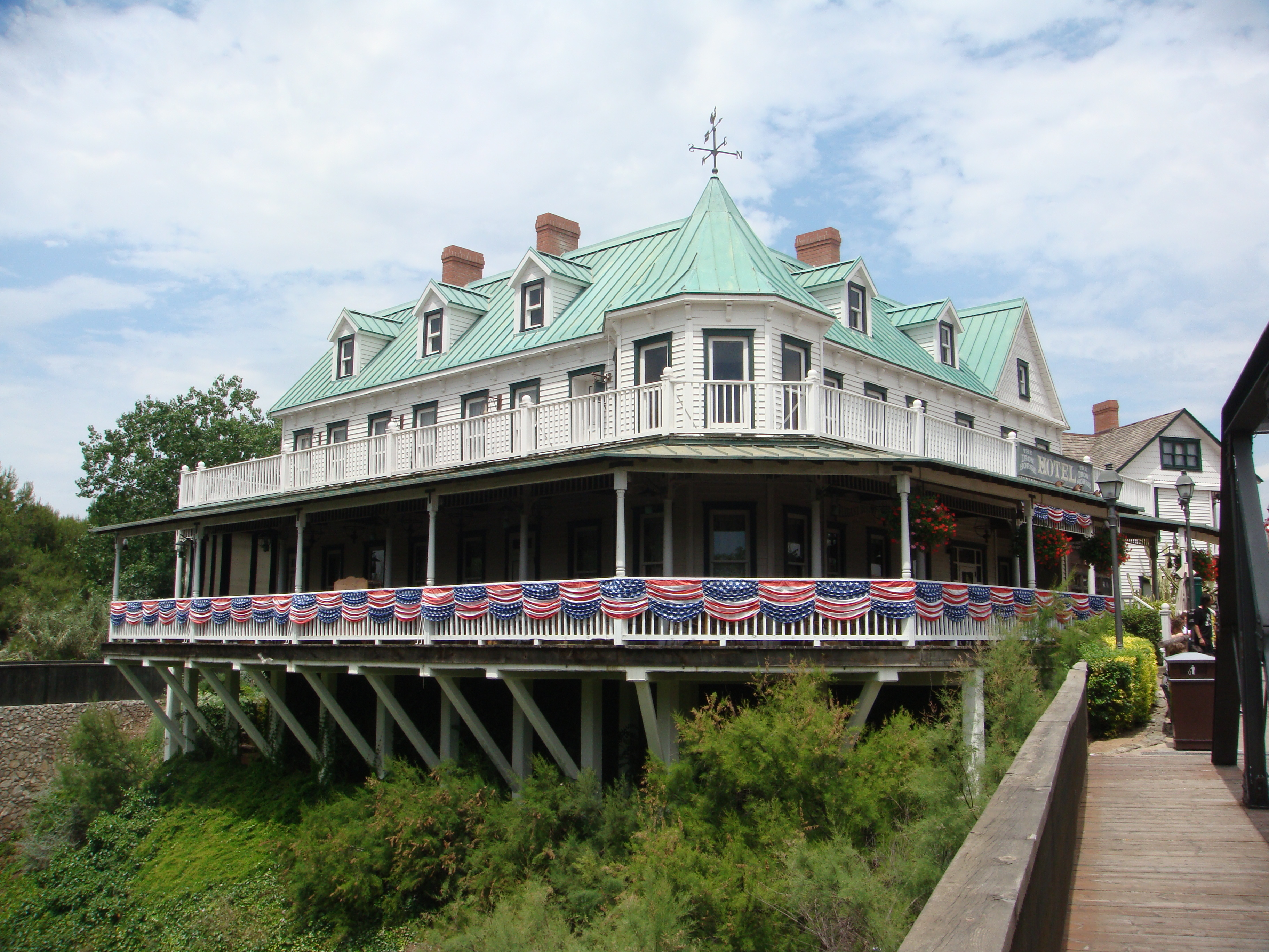 Iron Hotel in Port Aventura